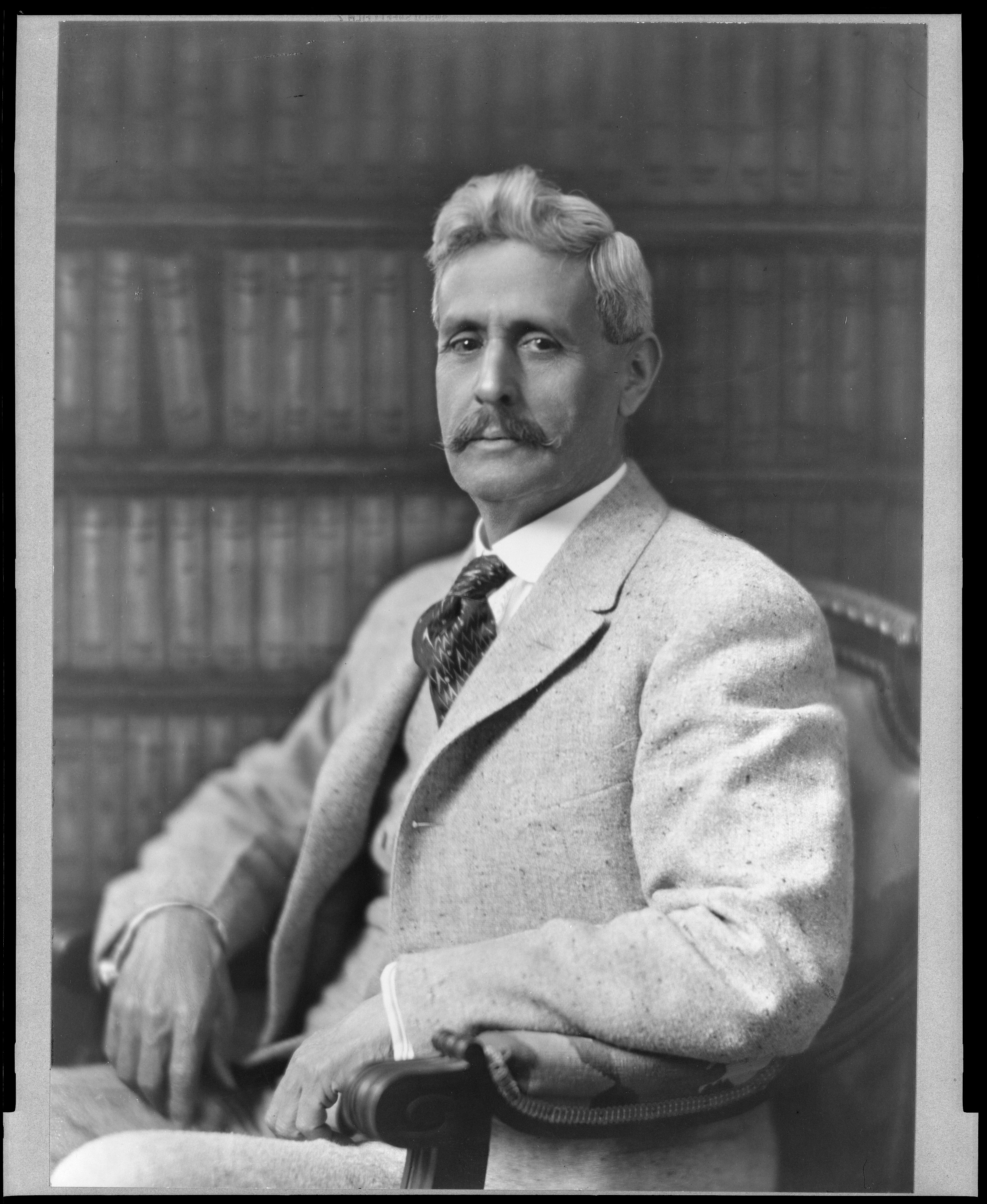 Title: Octaviano A. Larrazolo, who was elected governor of New Mexico in 1918 and served in the U.S. Senate 1928-29 Abstract/medium: 1 photographic print.